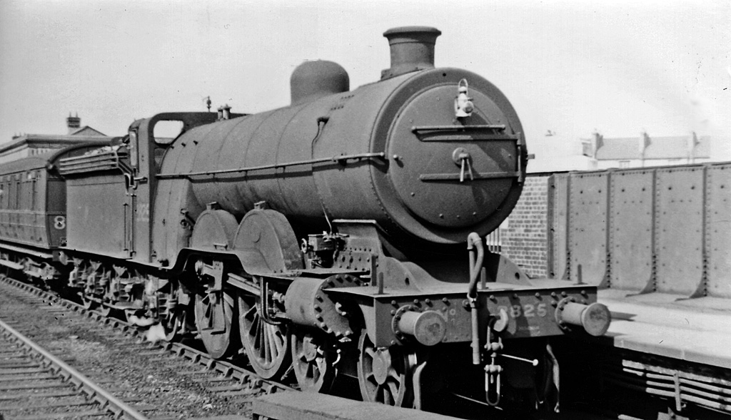 LNER Ivatt Atlantic at Finsbury Park. View northward, towards Hitchin and the North; ex-Great Northern ECML. Ex-GN Ivatt Atlantic C1 4-4-2 No. 2825 on the 13.49 stopping train from Cambridge stands on the Seven Sisters Road Bridge at Finsbury Park. Having served as principal express locomotives on the GNR in the first two decades of the 20th Century, these capable engines were 'worked to the death' on secondary services until just after the Second World War, when they were supplanted by the new B1 4-6-0's. This is one of the survivors, No. 2825. [This is also one of my very first successful photographs, in 1946].